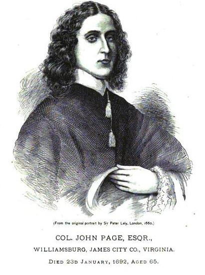 "Col. John Page, Esq., Williamsburg, James City County, Virginia, Died 23 January, 1692, Aged 65." From the original portrait by Sir Peter Lely, London, 1660.